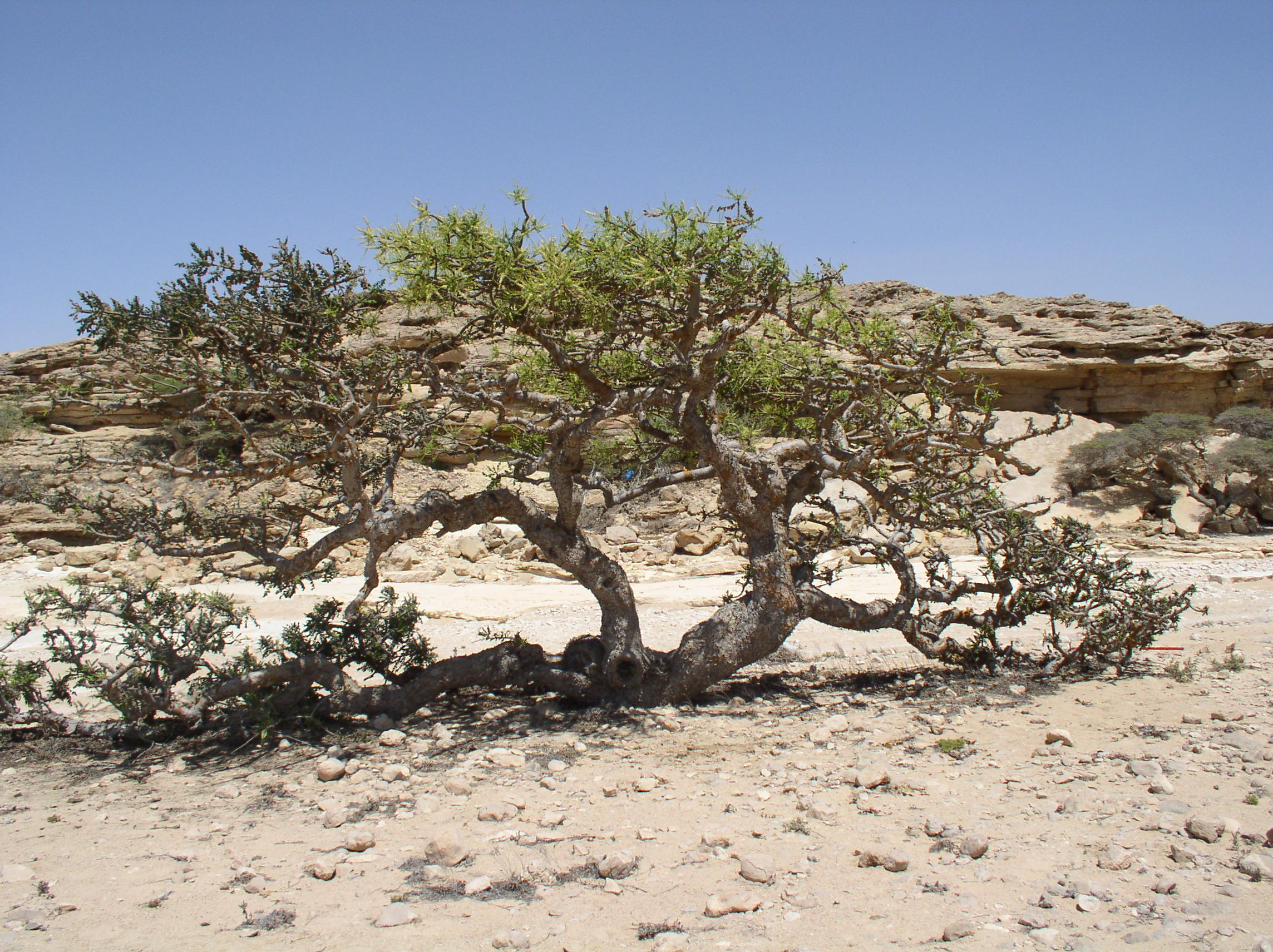 An old tree of Boswellia sacra in Dhofar (Oman)